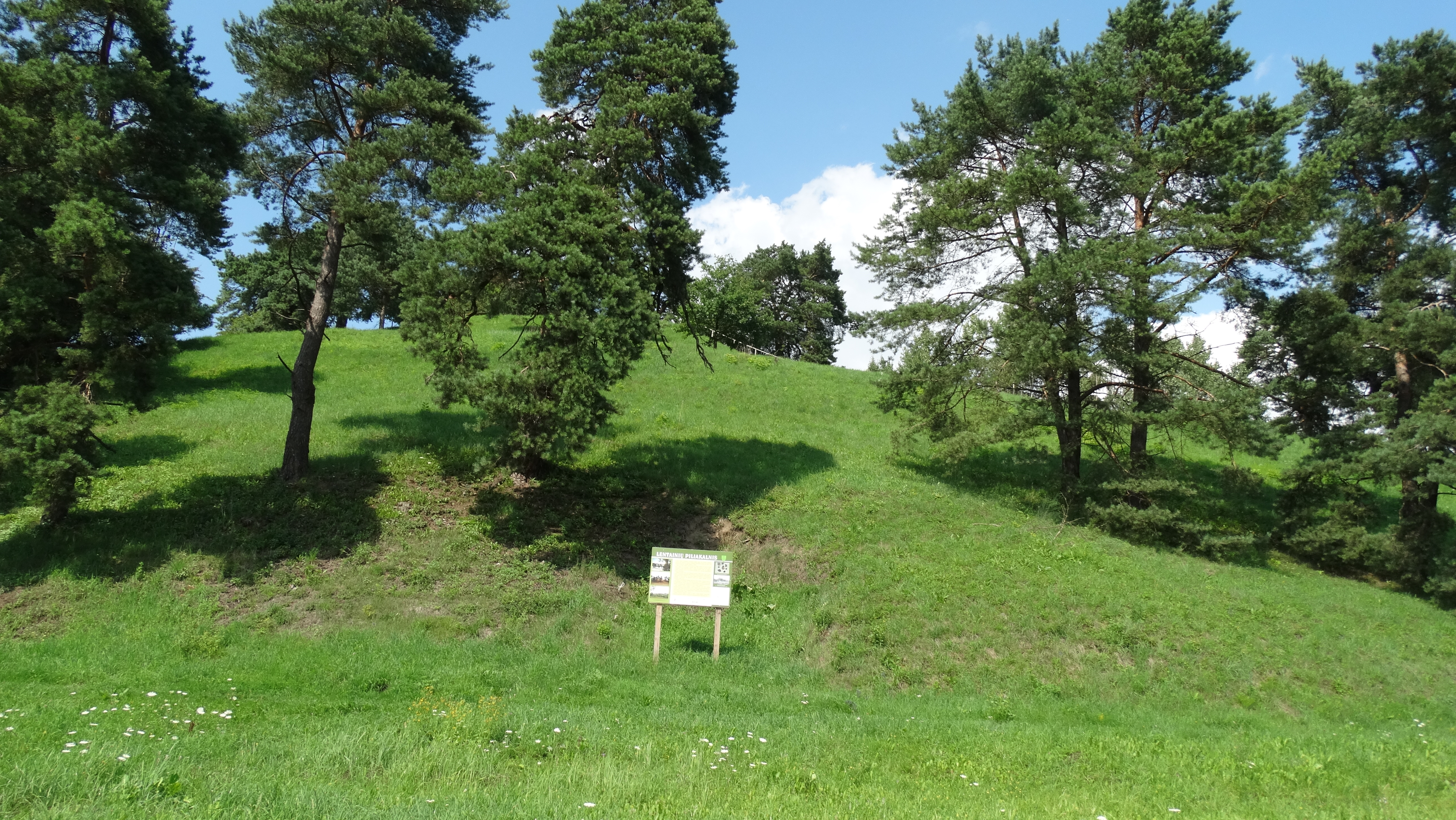 Lentainių (Lantainių) hillfort, Kaunas district, Lithuania